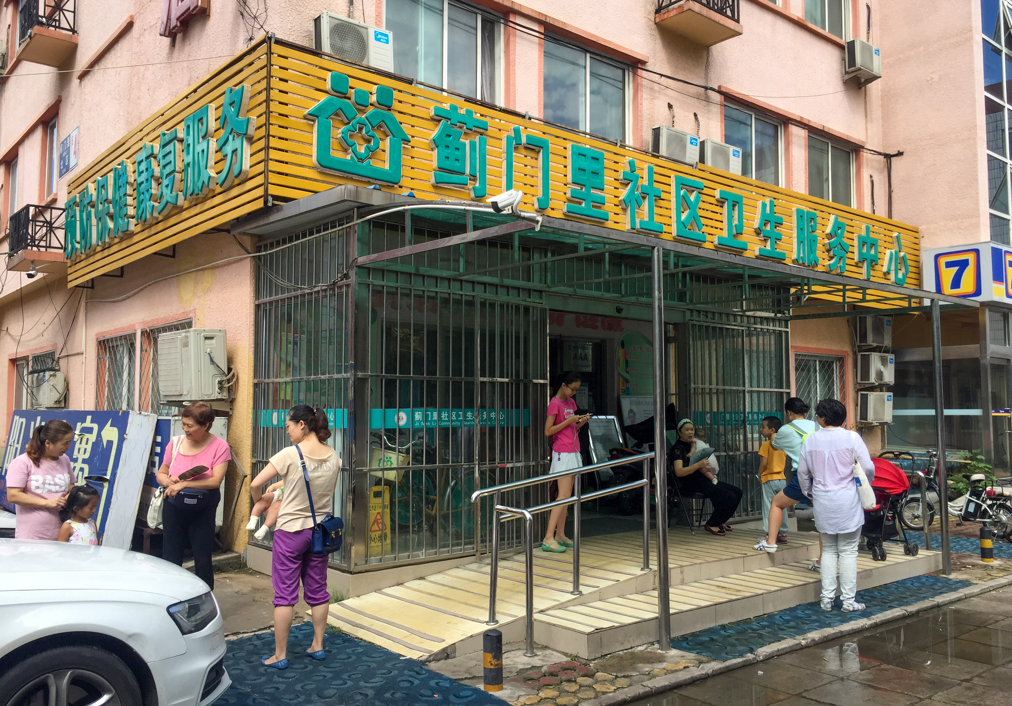 Jimenli International... bigger than a clinic.